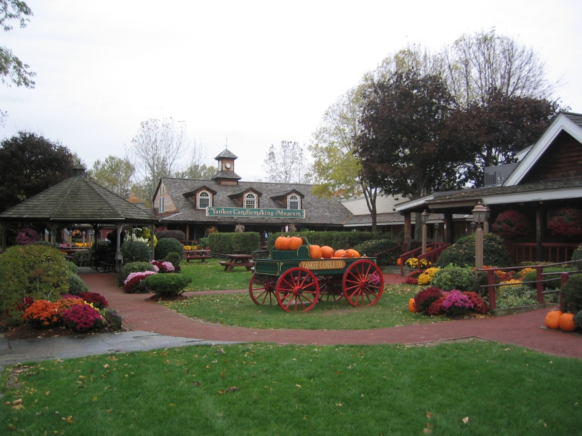 A view of the Yankee Candle flagship store. It contains a candle making museum among other attractions.